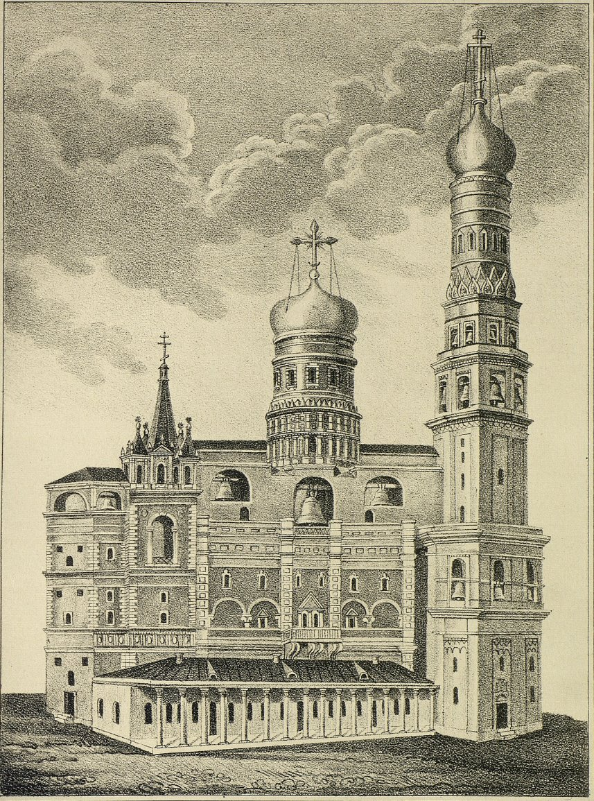 The last known image of Ivan the Great belltower prior to destruction of 1812. Lithography by Gustav Hoppe, 1805